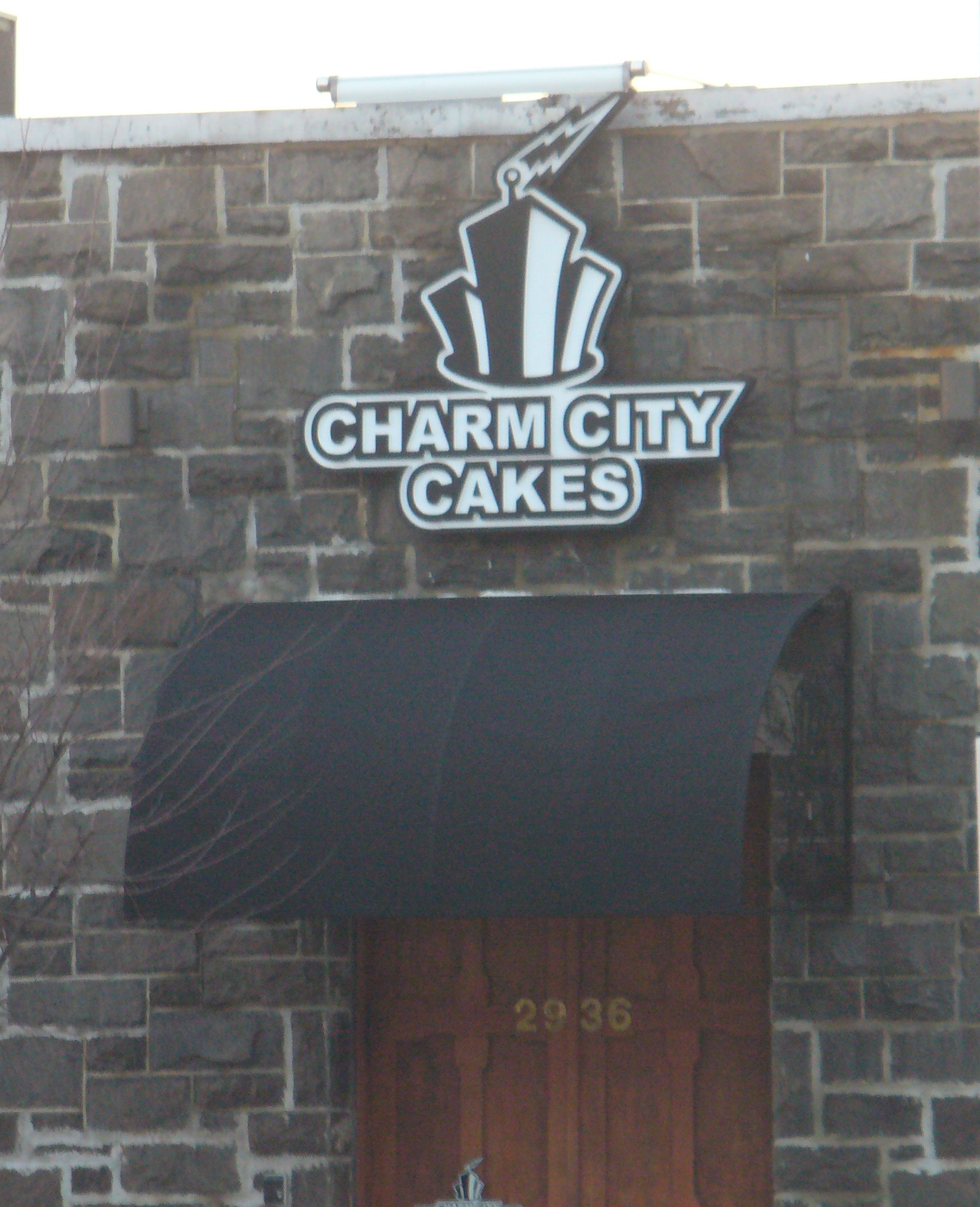 Photograph of the front of Charm City Cakes in Baltimore Maryland